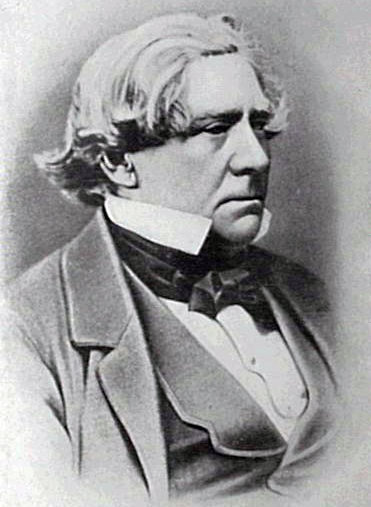 Australian poet Williams Wentworth, circa 1861